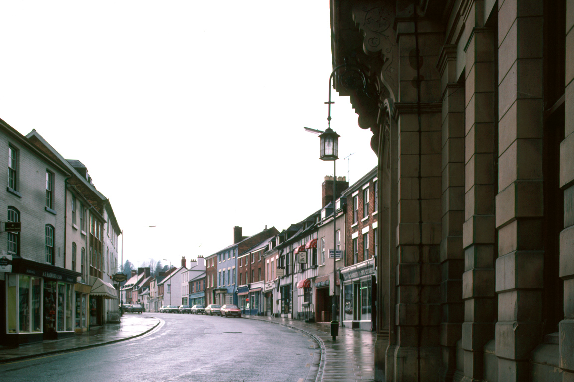 Village of Welshpool, located in the county of Powys in Wales; Main street seen from the town hall.